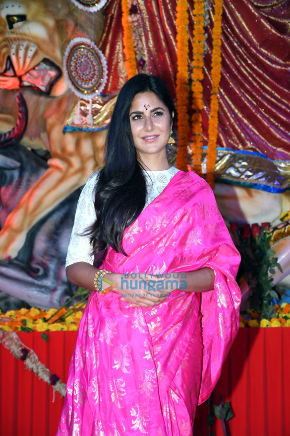 Katrina Kaif snapped visiting a Durga Puja pandal in 2018